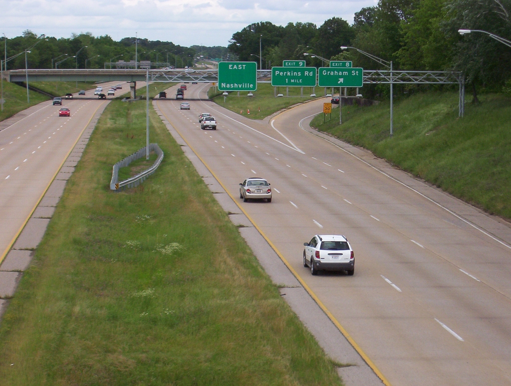 Sam Cooper Boulevard in Memphis, Tennessee. Photo made from the pedestrian bridge at Meade Avenue and Lytle Street. View to the east at the Graham Street exit (Exit #8)